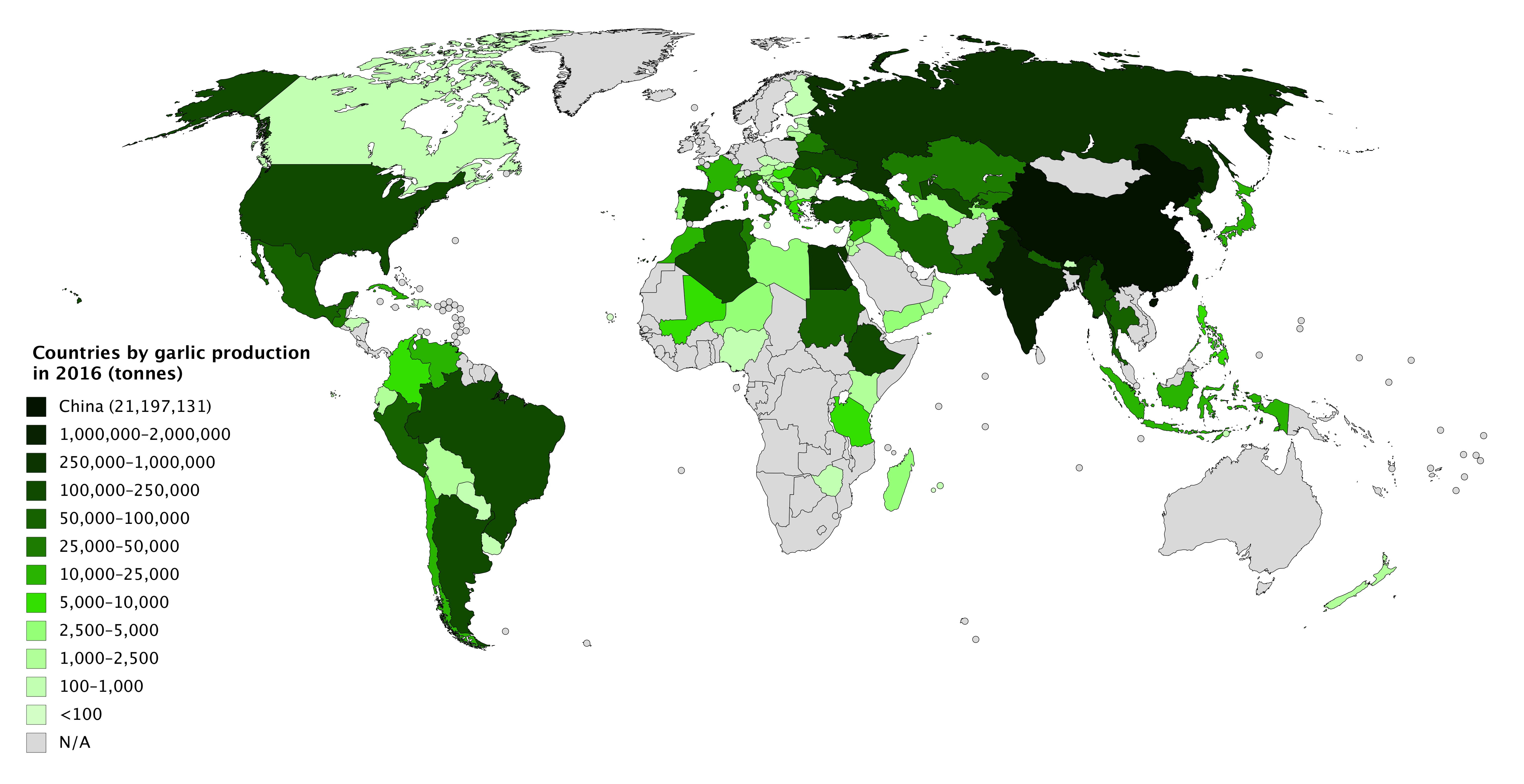 A choropleth map showing countries by eggplant (aubergine) production in tonnes, based on 2016 data from the Food and Agriculture Organization Corporate Statistical Database (FAOSTAT).